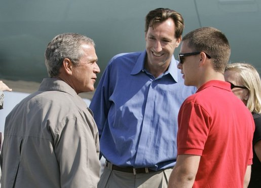 President George W. Bush meets Freedom Corps Greeter Chris Dudley, center, and Tyler Byrne, 17, at the Portland Air National Guard Base in Portland, Ore., Friday, Aug. 13, 2004. Mr. Dudley started The Dudley Foundation in 1994 to help children succeed regardless of economic, education, or health liabilities. One of the foundation's key projects is the creation of the first basketball camp for boys and girls with diabetes. Tyler takes part in the program.